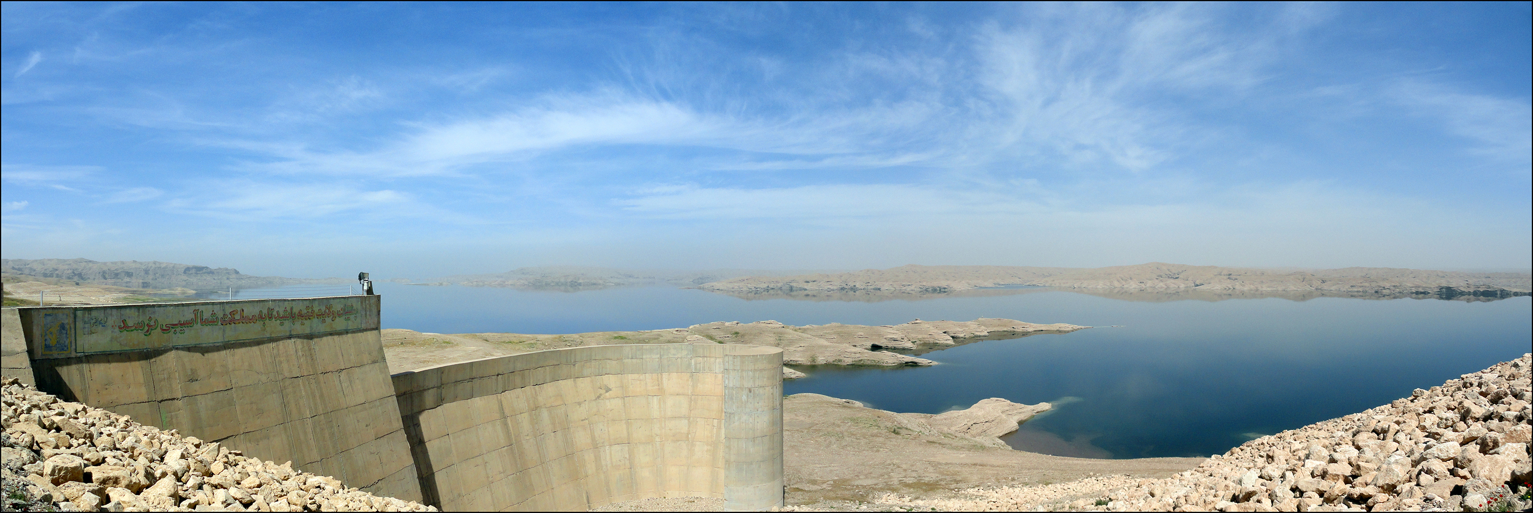 Karkheh Dam